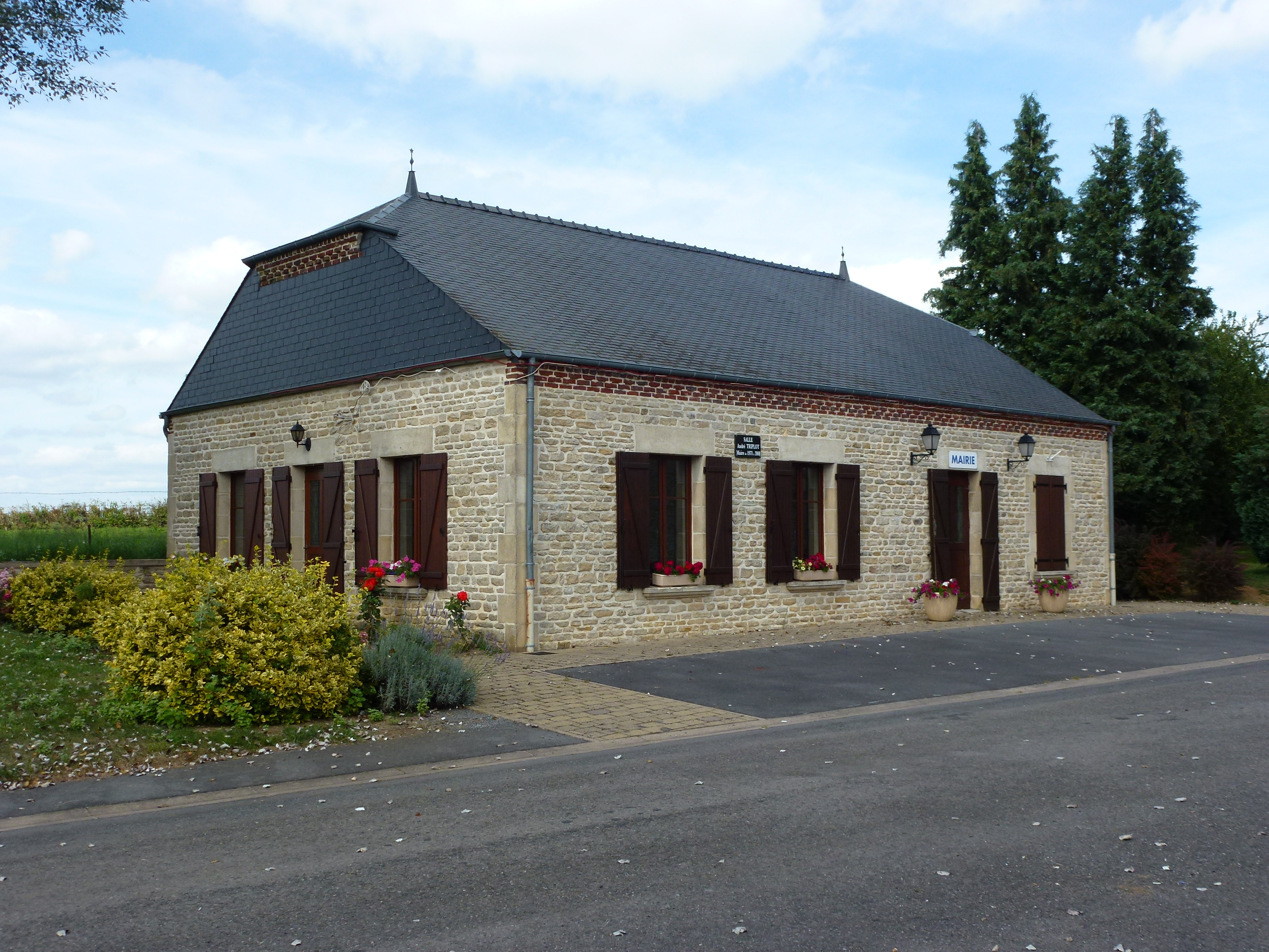 Auge (Ardennes) mairie